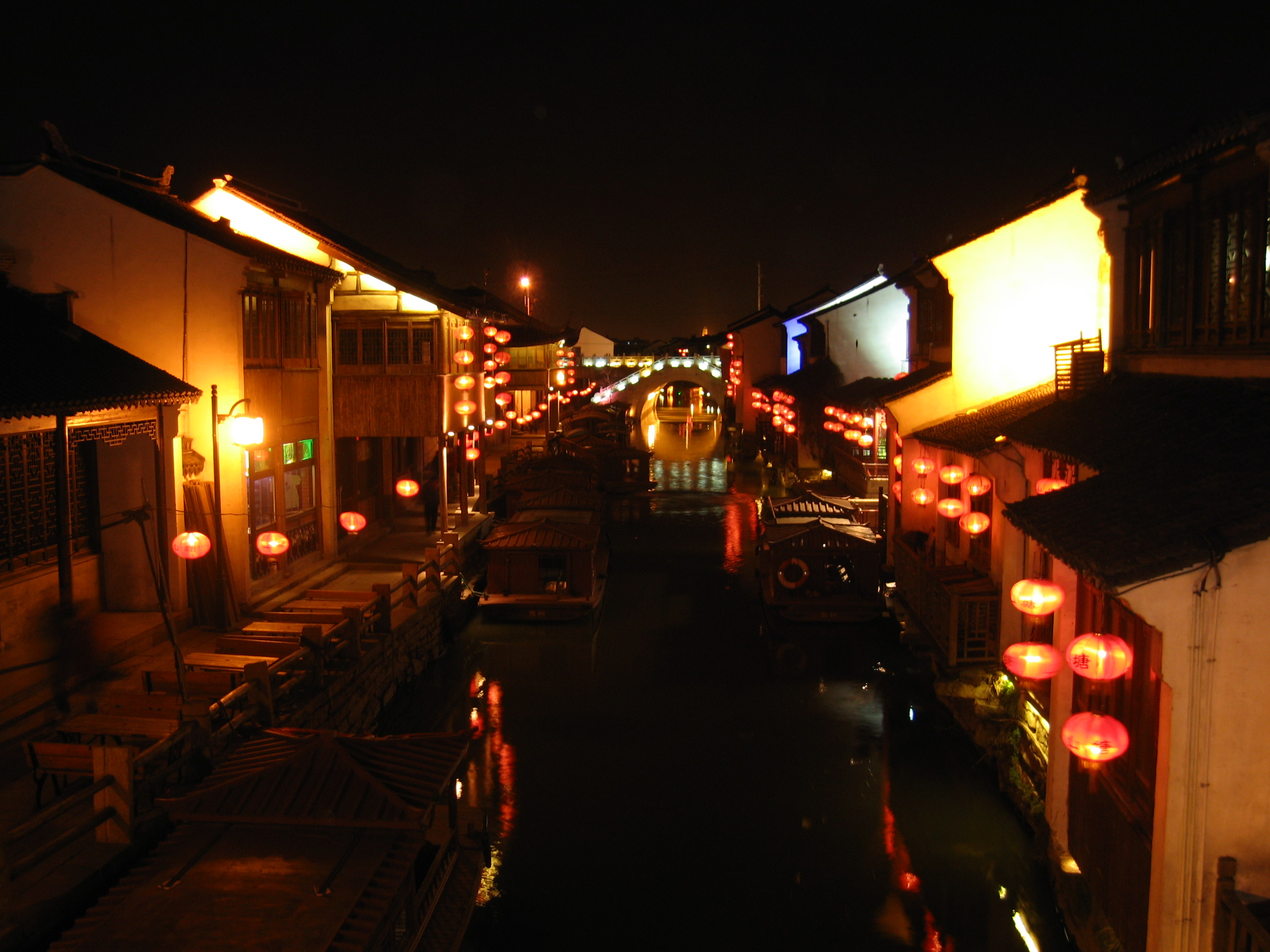 Shantang Canal in Suzhou at night.